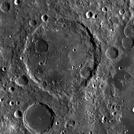 LROC . Oppenheimer at center, dark floored Maksutov bottom left, east sector of Apollo basin at right margin.